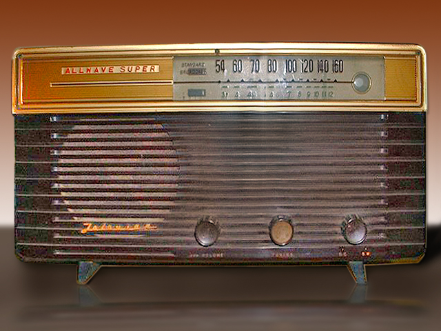 A 5-tubes superhet receiver made in Japan about 1955. Picture taken by Starbacks. GFDL-licensed.